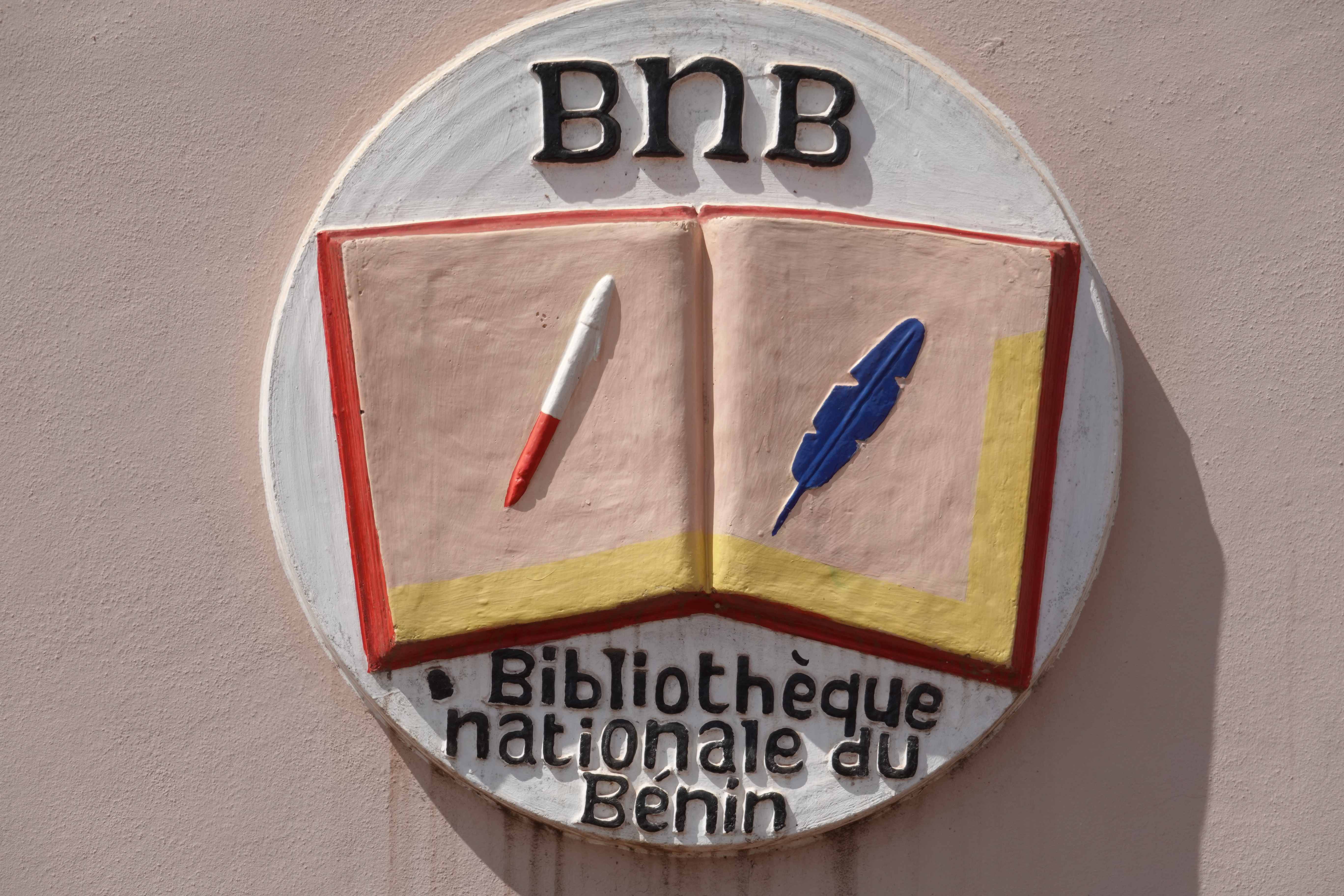 relief embelem with library symbols, initials and name of the library